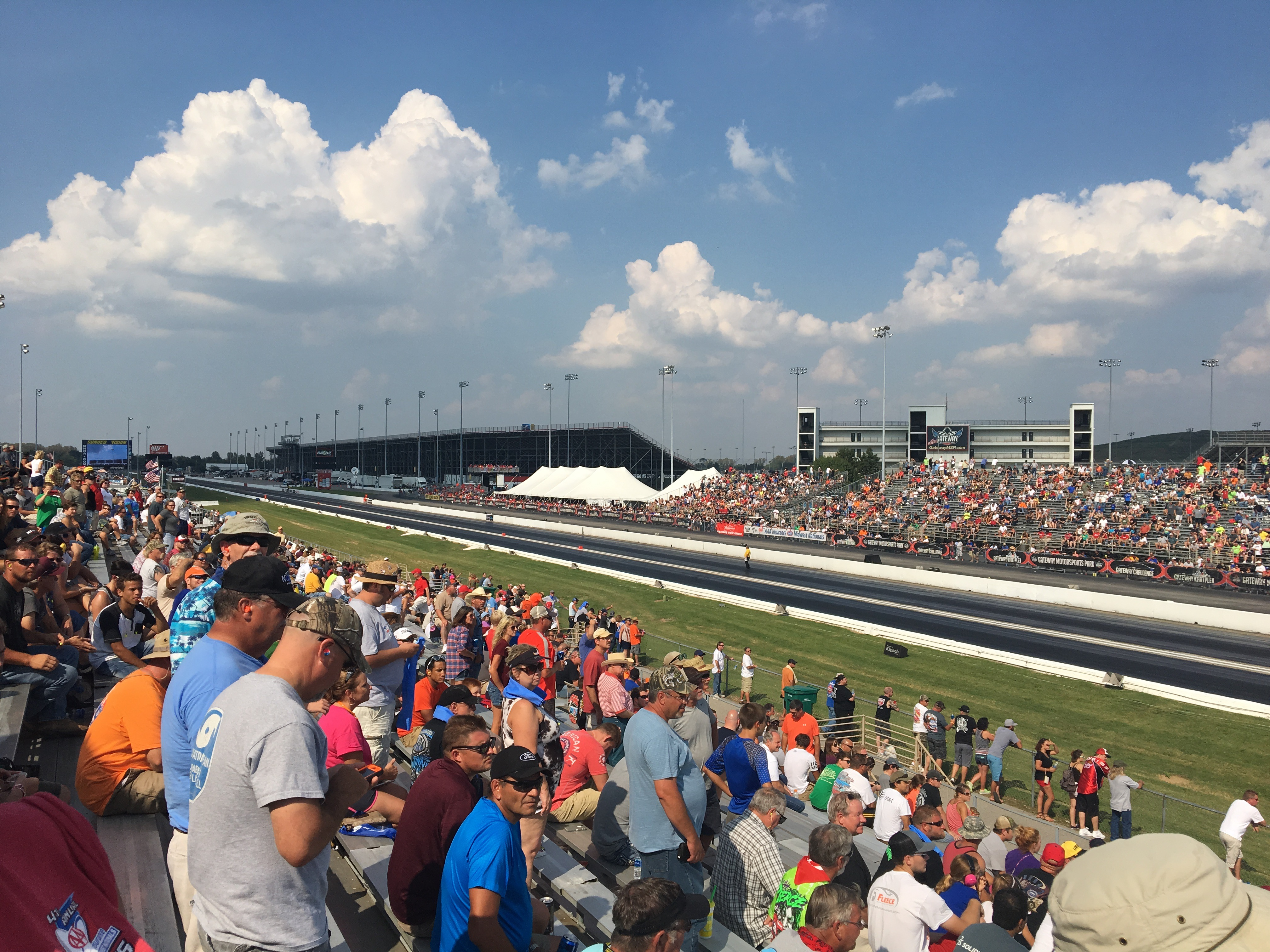 Looking down the drag strip towards the finish line during the 2016 NHRA Midwest Nationals.